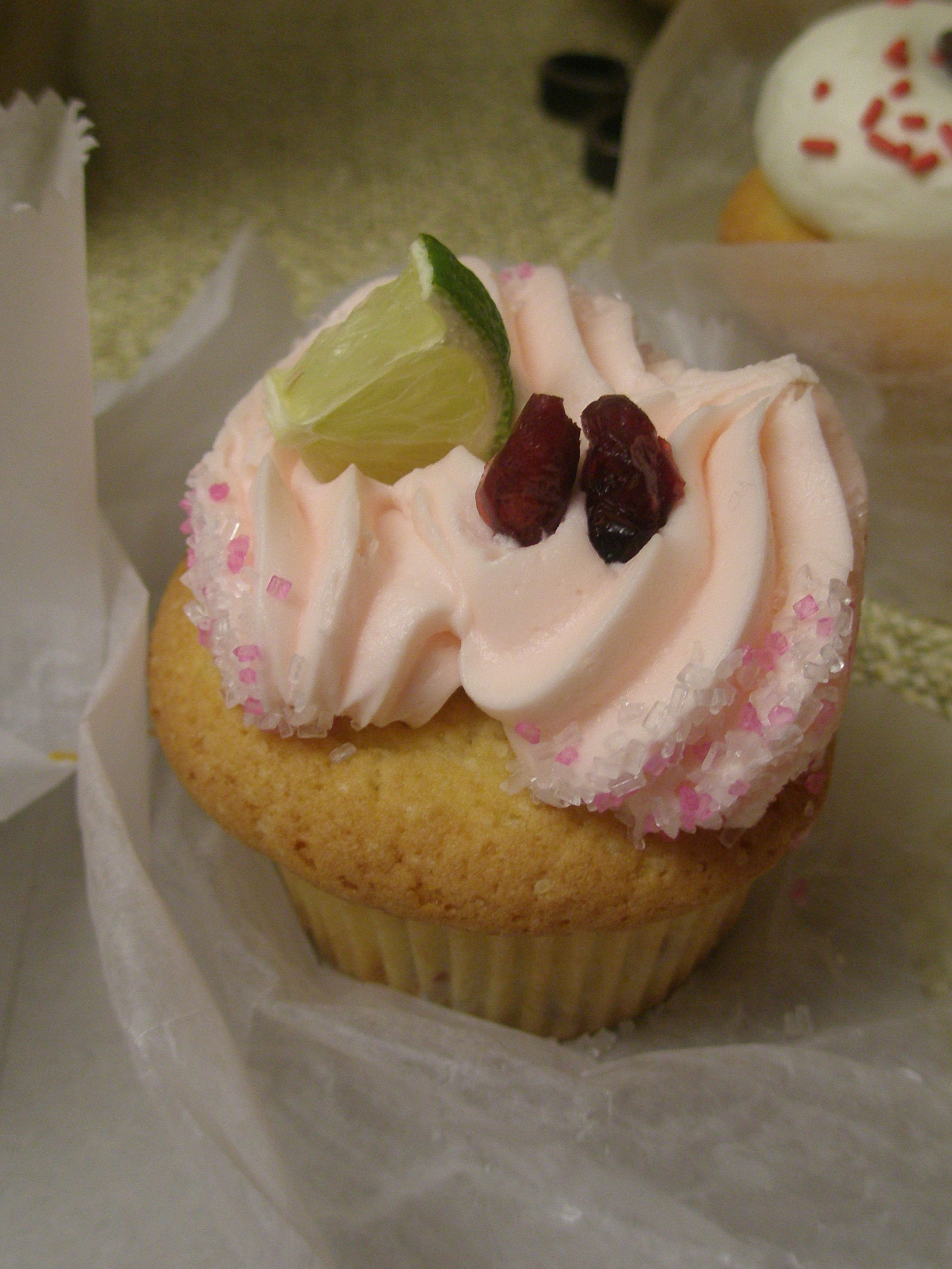 vodka and lime juice soaked cranberries in vanilla cake with lime buttercream and a lime twist... shaken, not stirred from dozen cupcakes, squirrel hill, pittsburgh, pa